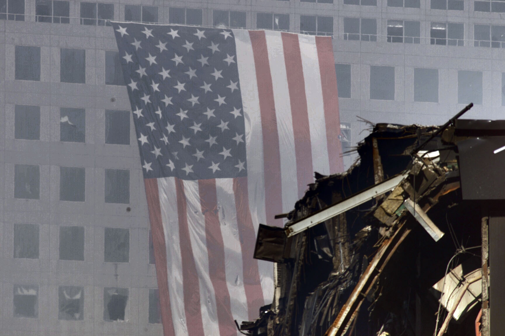 Ground Zero at Lower Manhattan only a few days after the Terror Attacks against New York, September 11.